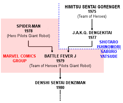 This is an English translation of File:Super sentai history.png which was released under the GFDL and CC.